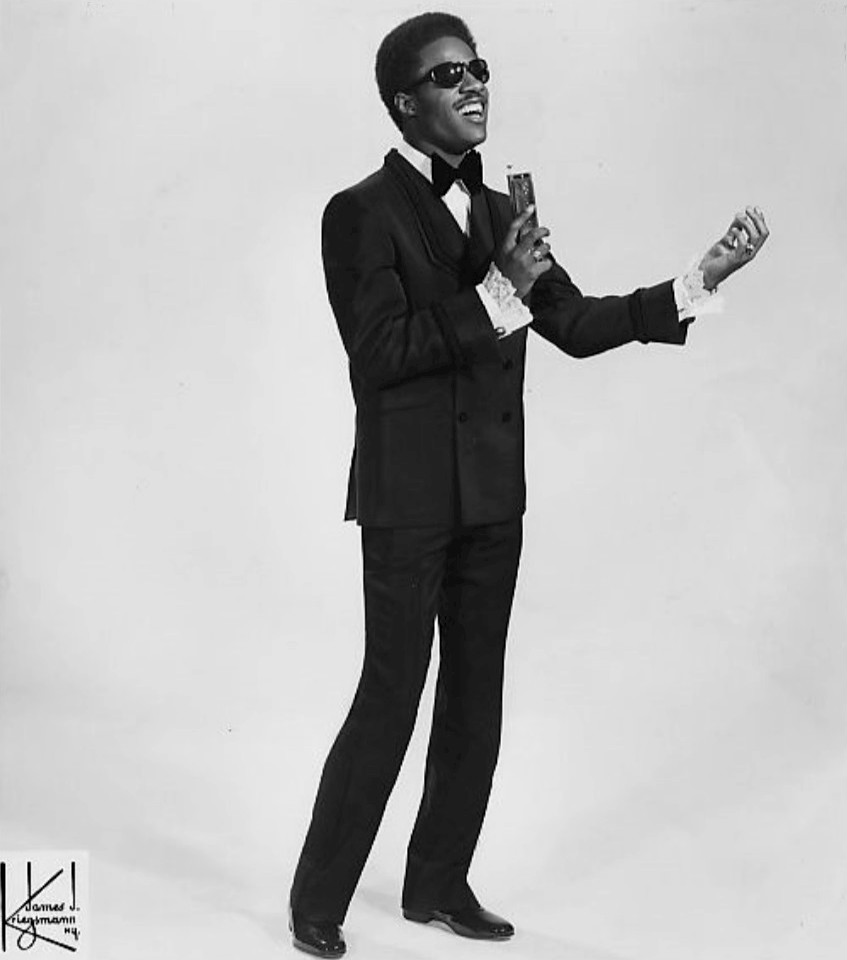 Photo of Stevie Wonder circa late 1960s - early 1970s.